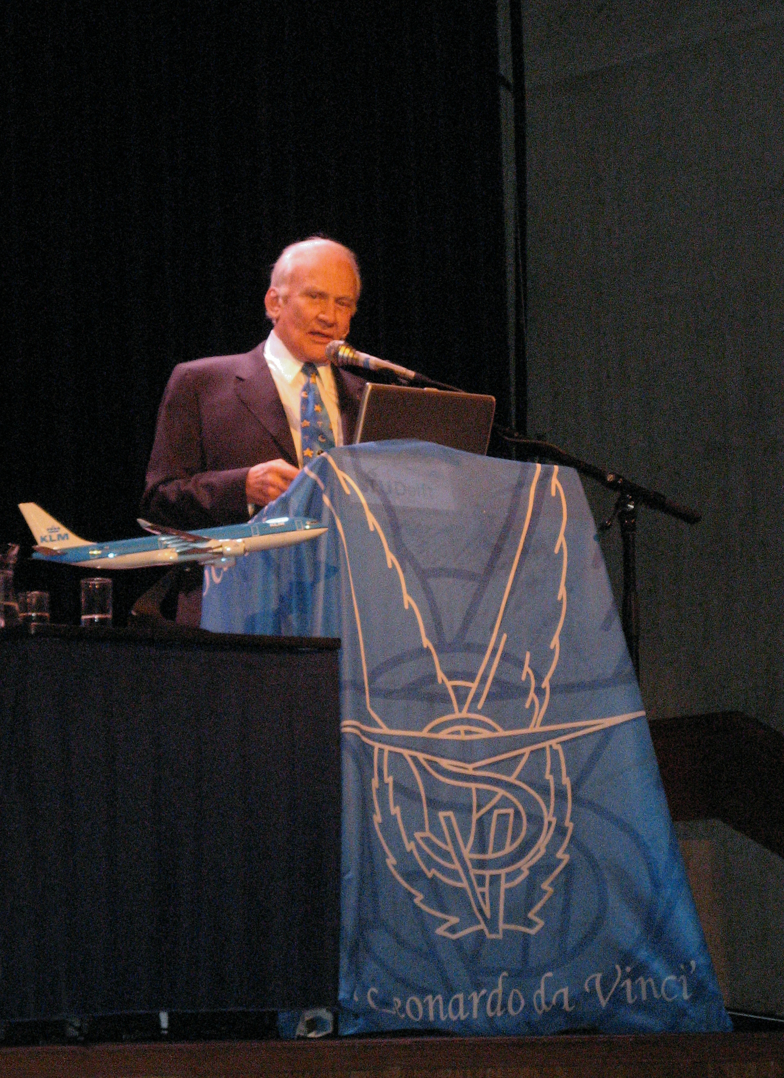 Buzz Aldrin giving a lecture on the Space for Society symposium